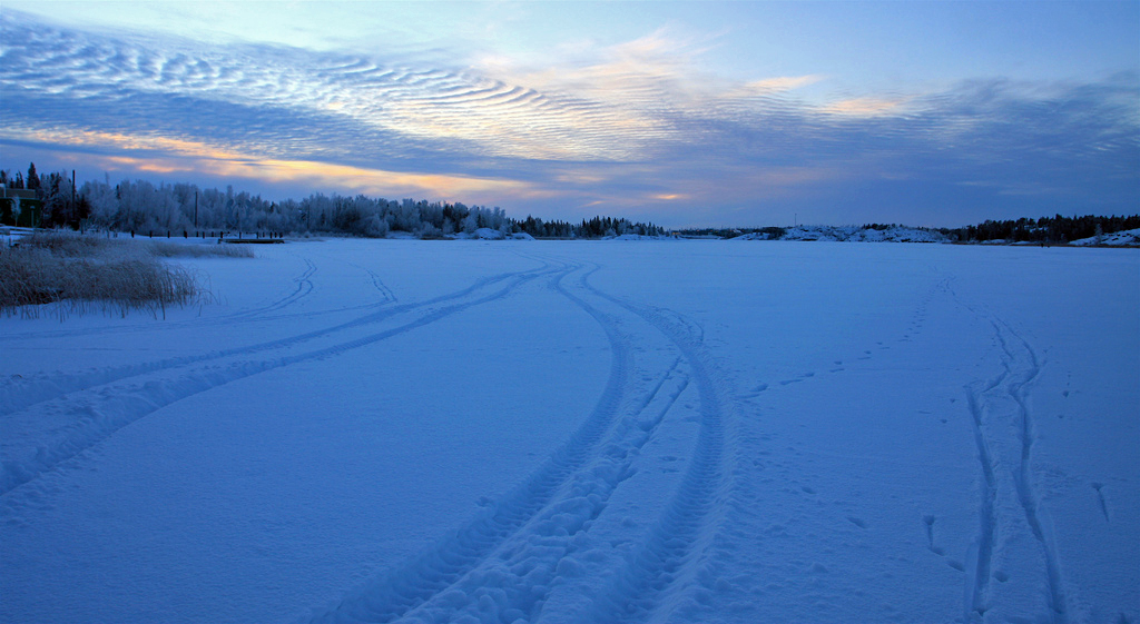 Vehicle and ski tracks in the snow covering Frame Lake, Yellowknife, NT, Canada, in winter